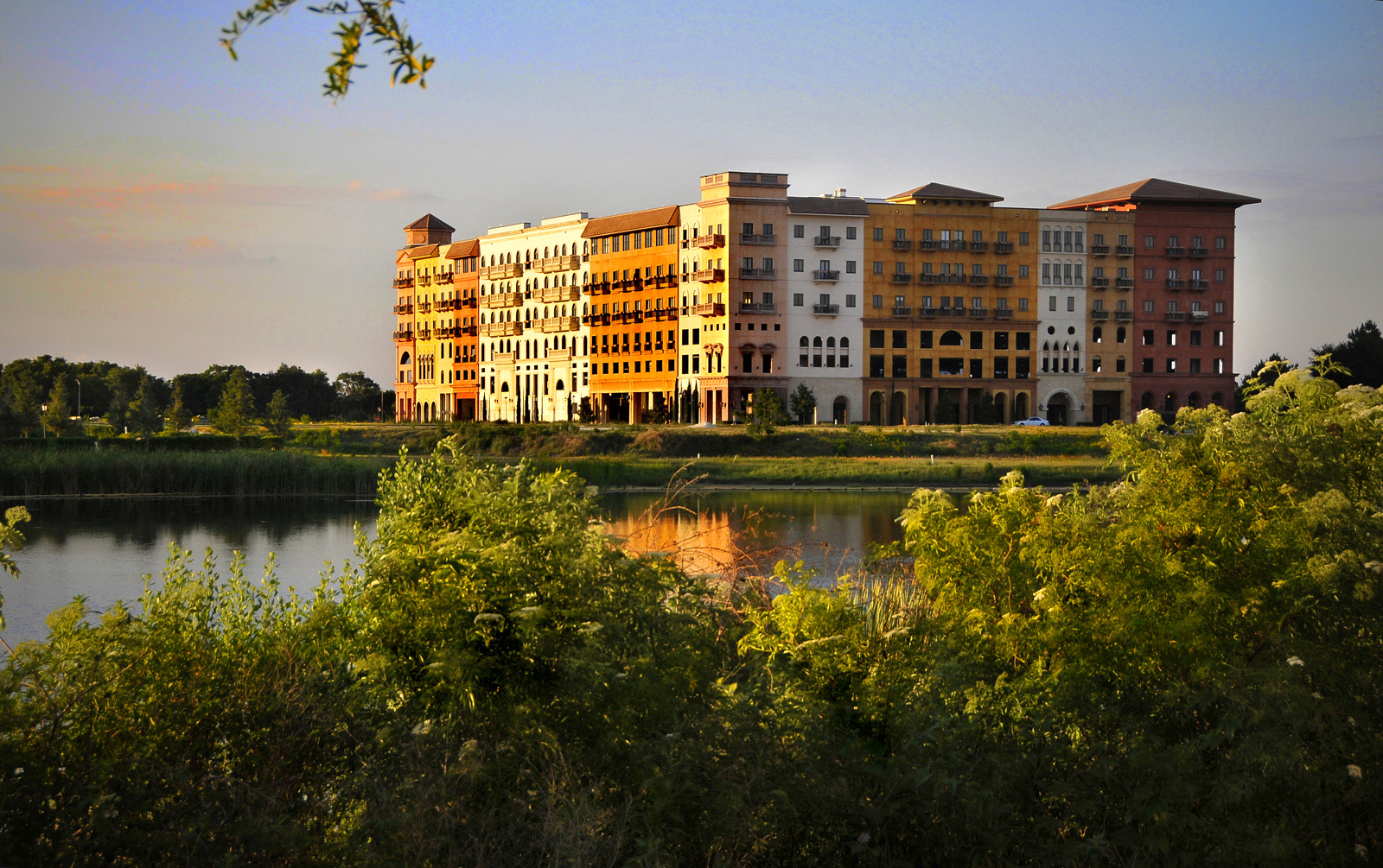 The 'Residences at the Veranda' is a condominium complex in the master planned community of MetroWest in Orlando, Florida.